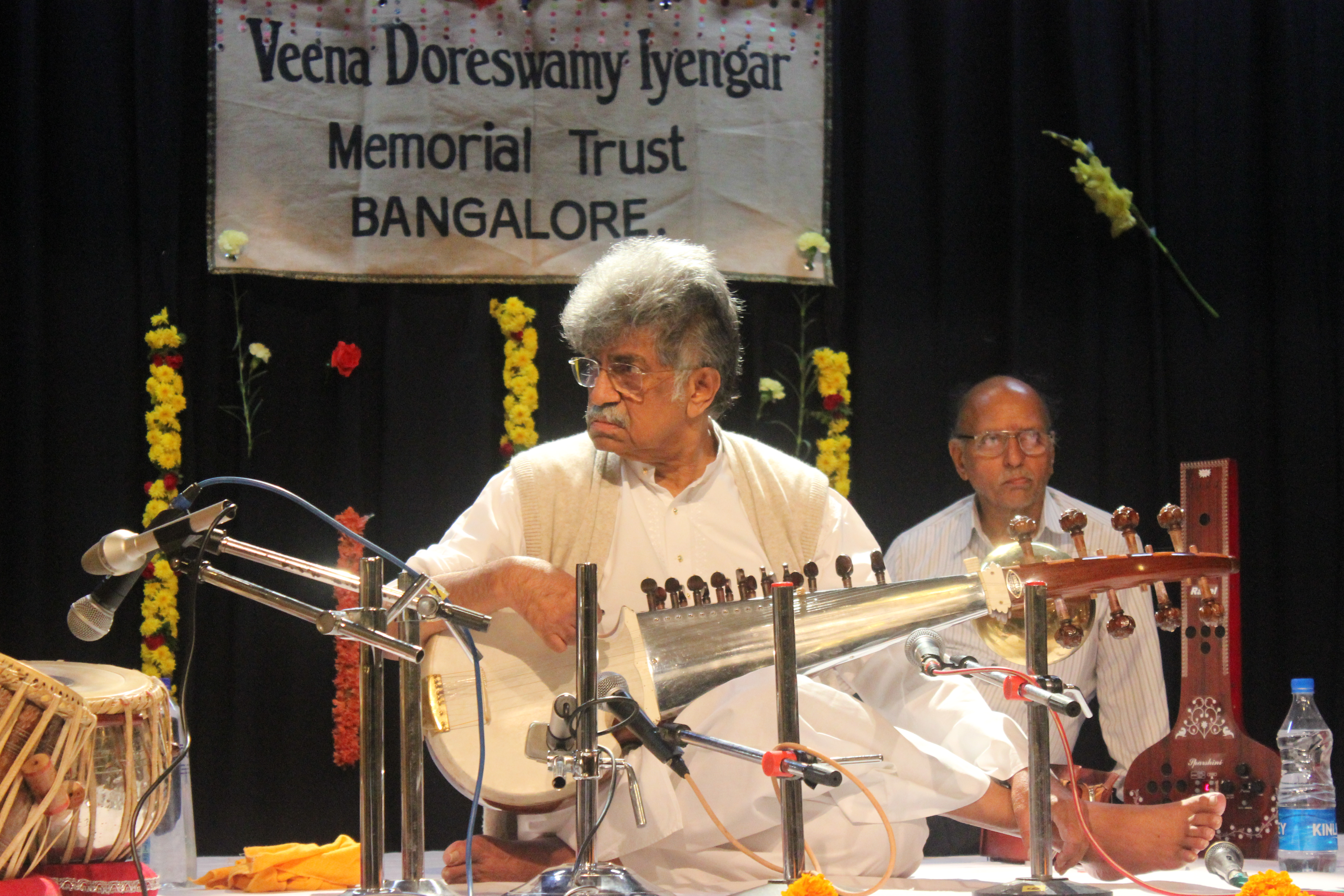 Pt. Rajeev Taranath performing at Bharatiya Vidya Bhavan, Bangalore